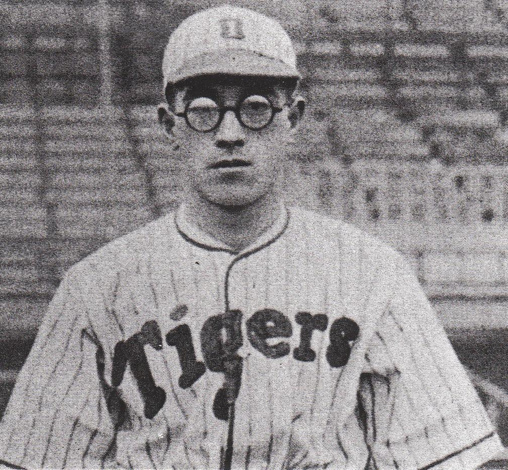 A professional baseball player from Japan, Takao Misonoo.